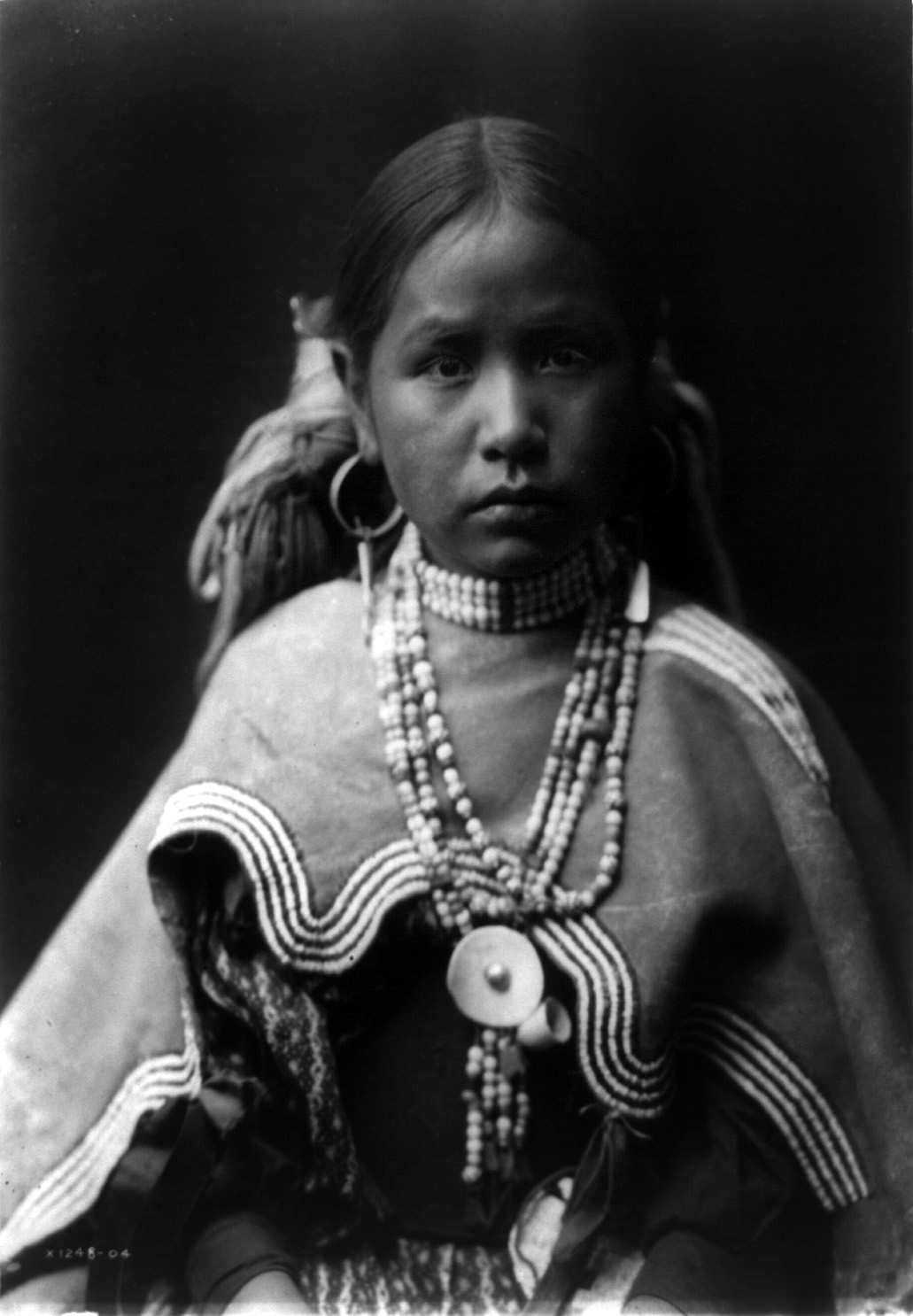 Jicarilla maiden, half-length portrait, facing right.